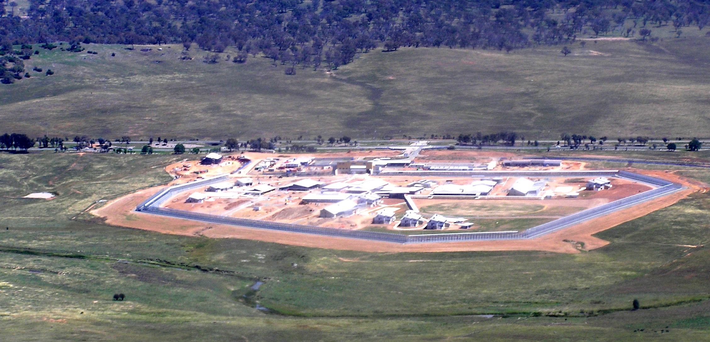 Aerial photo of the Australian Capital Territory gaol, near completion